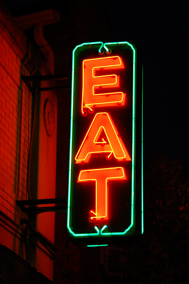 Original Whitey's "EAT" sign in Arlington, VA.